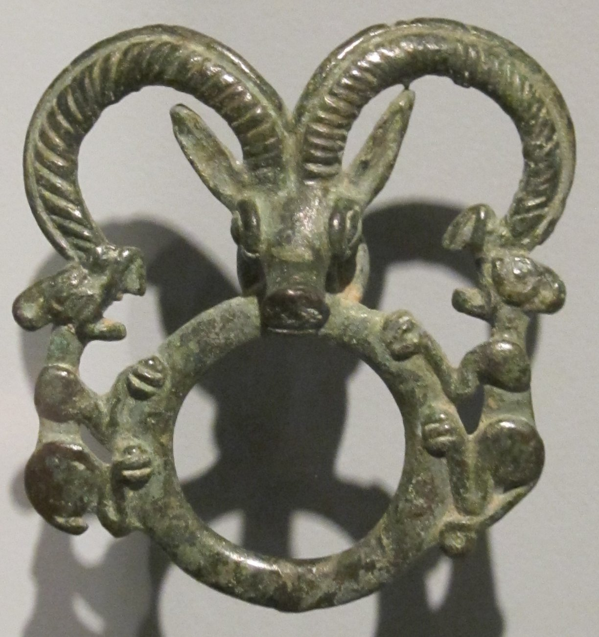 Harness Ring Iran, Luristan 10th–9th centuries BCE Honolulu Academy of Arts Gift of Lionberger Davis, 1958 (2494.1)